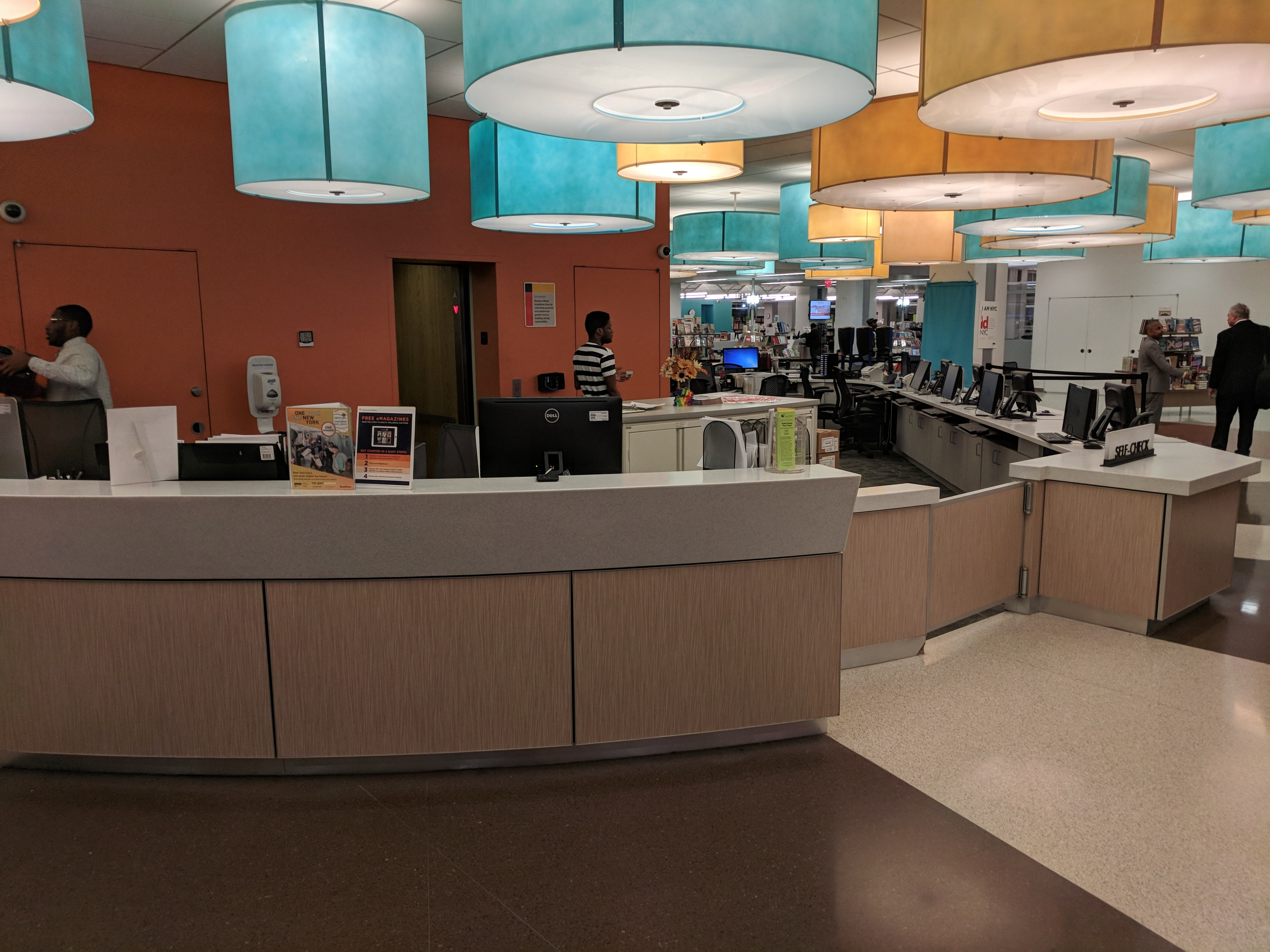 Main branch happenings, Merrick blvd, main desk